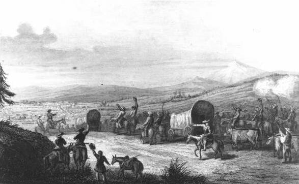 "Arrival of the caravan at Santa Fe" 1844 Lithograph. Santa Fe Trail in Mexican Colonial New México (Santa Fe De Nuevo Mexico). Copy of original lithograph ca. 1844